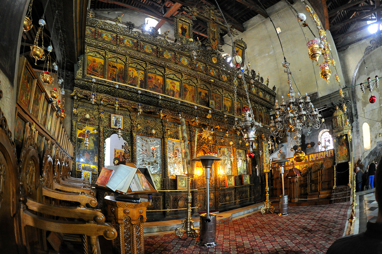 Church of the Nativity (Bethlehem) - iconostasis Иконостас храма рождества Христова